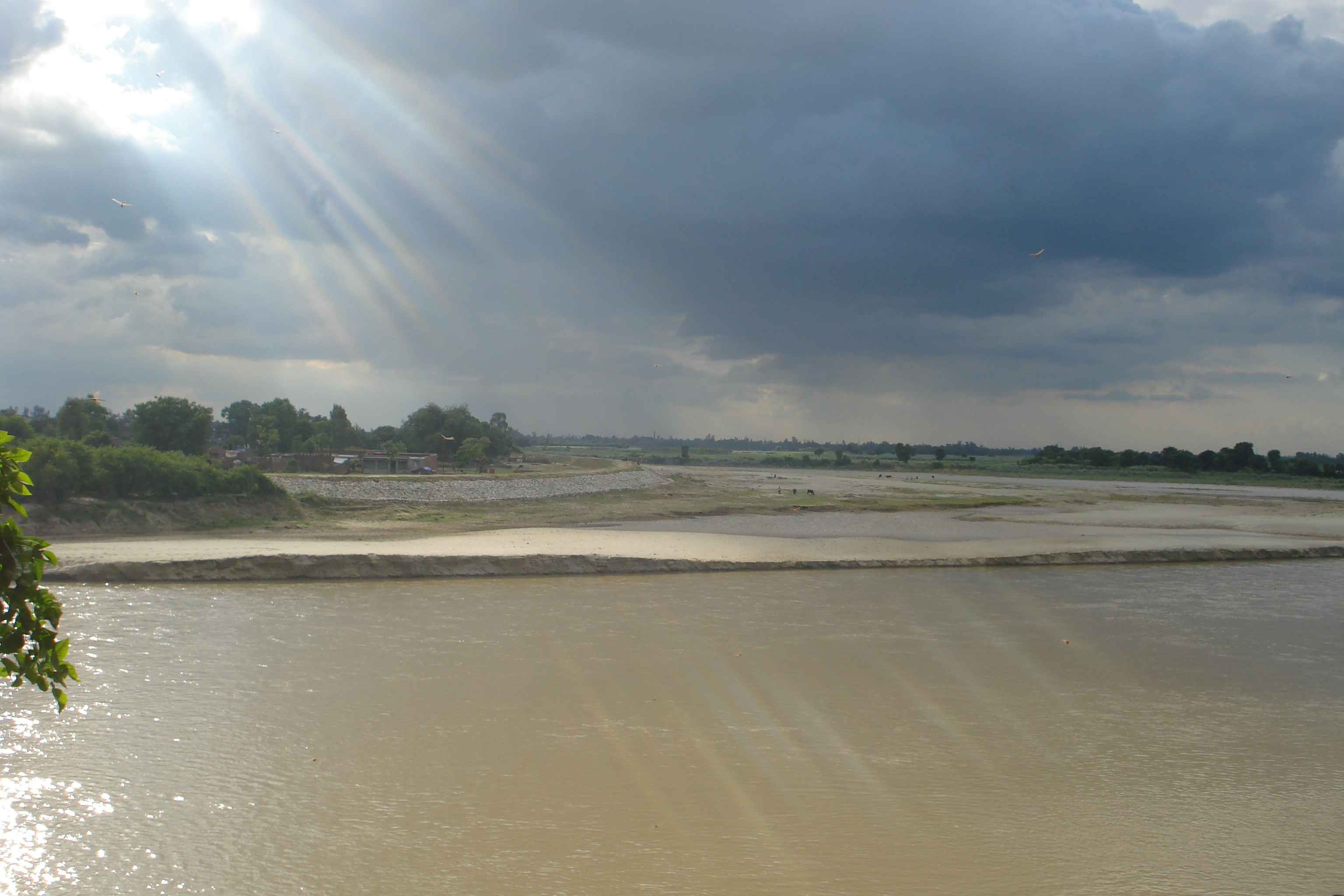 the beach of garrah river in rainy season